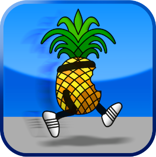 Pwn